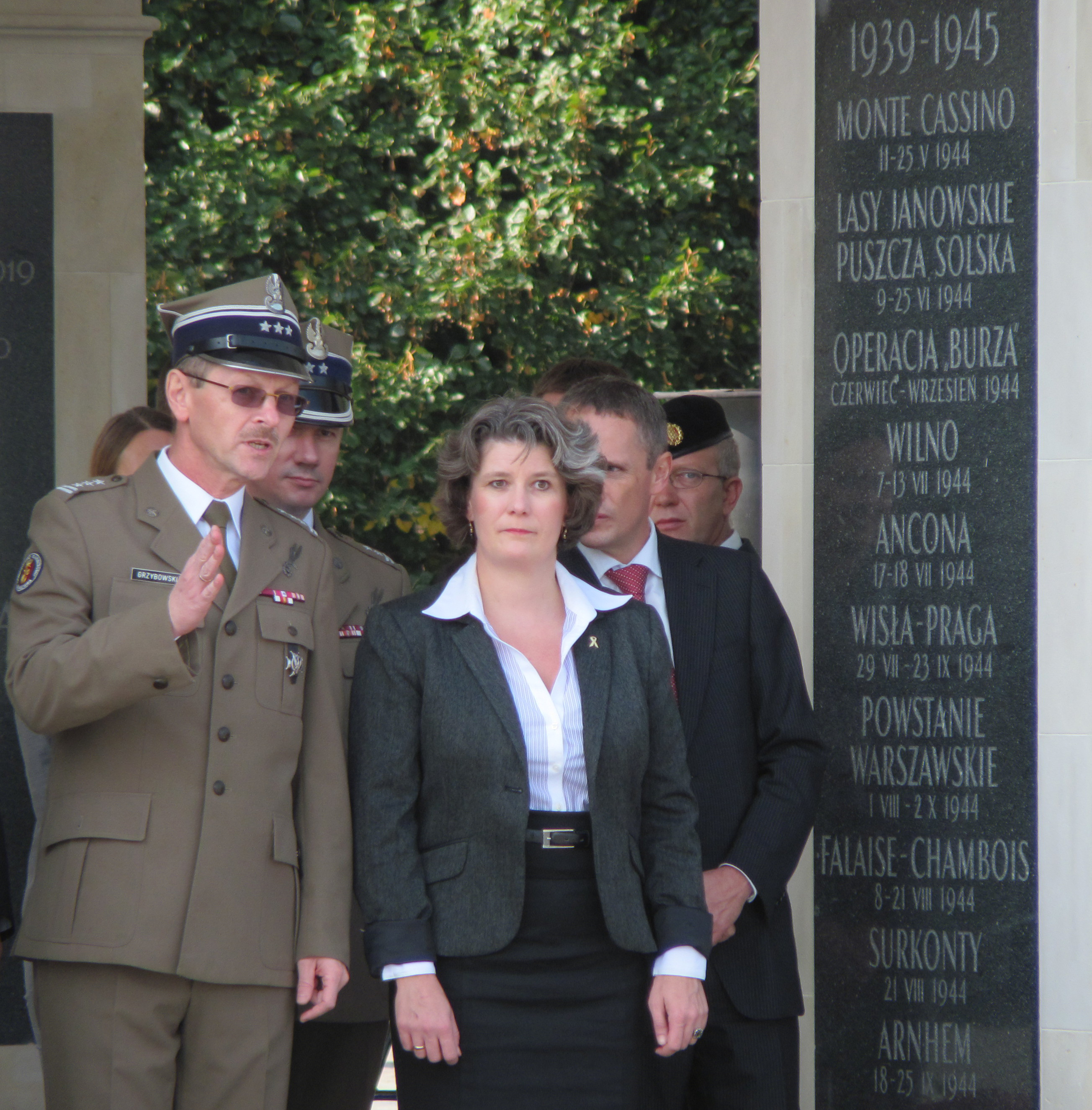 Gitte Lillelund Bech, Defence Minister of Denmark, at a reception in Warsaw in front of the Tomb of the Unknown Soldier.